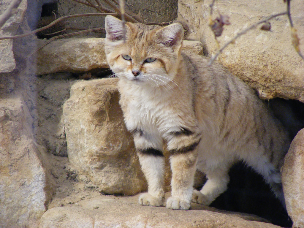 A sand cat in Marwell Wildlife, Hampshire, England. The zoo list F. s. harrisoni as the subspecies of their sand cats.